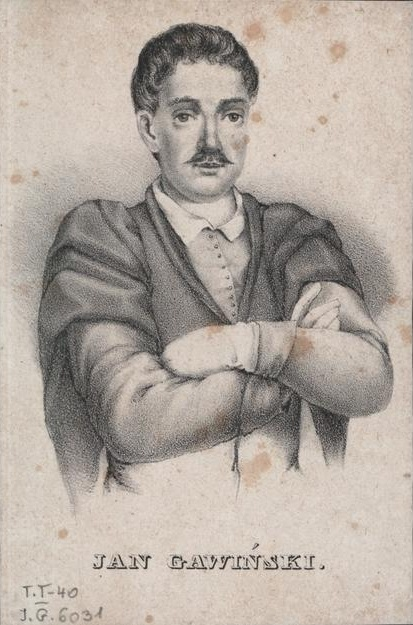 Jan Gawinski (ca. 1622- ca. 1684) - a Polish Baroque poet.